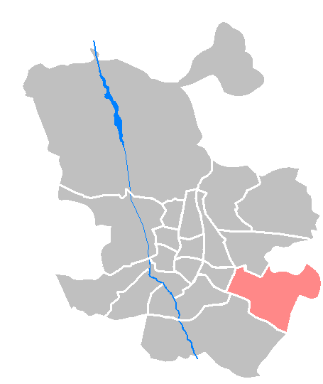 Locator maps of districts in Madrid: Maps - ES - Madrid - Vicalvaro.PNG